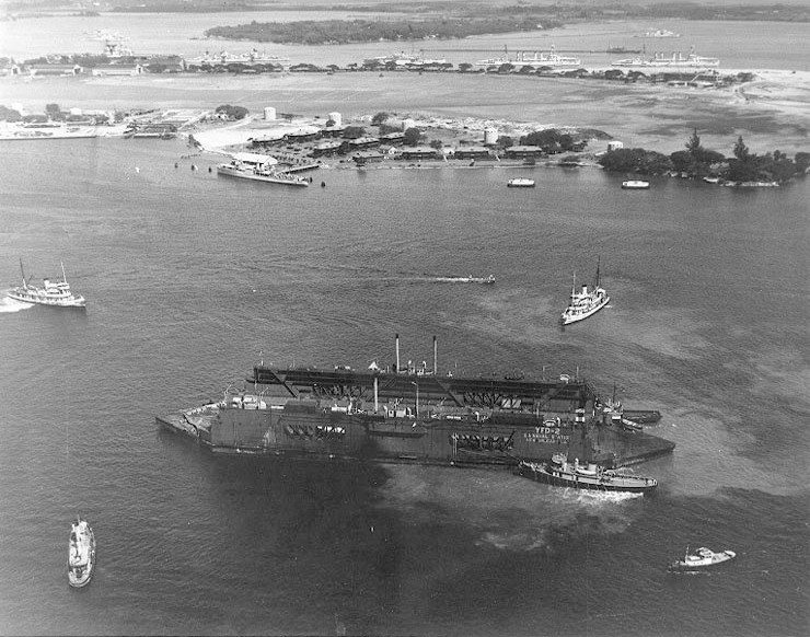 The U.S. Navy floating drydock YFD-2 arrives at Pearl Harbor, Hawaii (USA), 23 August 1940, after being towed from New Orleans, Louisiana (USA). It is still marked "U.S. Naval Station New Orleans, La". The tug USS Osceola (YT-129) is in the right foreground. One of the other tugs is probably the USS Sunnadin (AT-28). An unidentified destroyer seaplane tender (AVD) is tied up at the Ford Island fuel dock (left center). Visible in the distance, moored on the other side of Ford Island, are (from left to right): the aircraft carrier USS Yorktown (CV-5) (see large "Y"), two destroyers, the seaplane tender USS Wright (AV-1) and two Omaha-class light cruisers. The destroyer USS Shaw (DD-373) was sunk with YFD-2 on 7 December 1941 at Pearl Harbor.